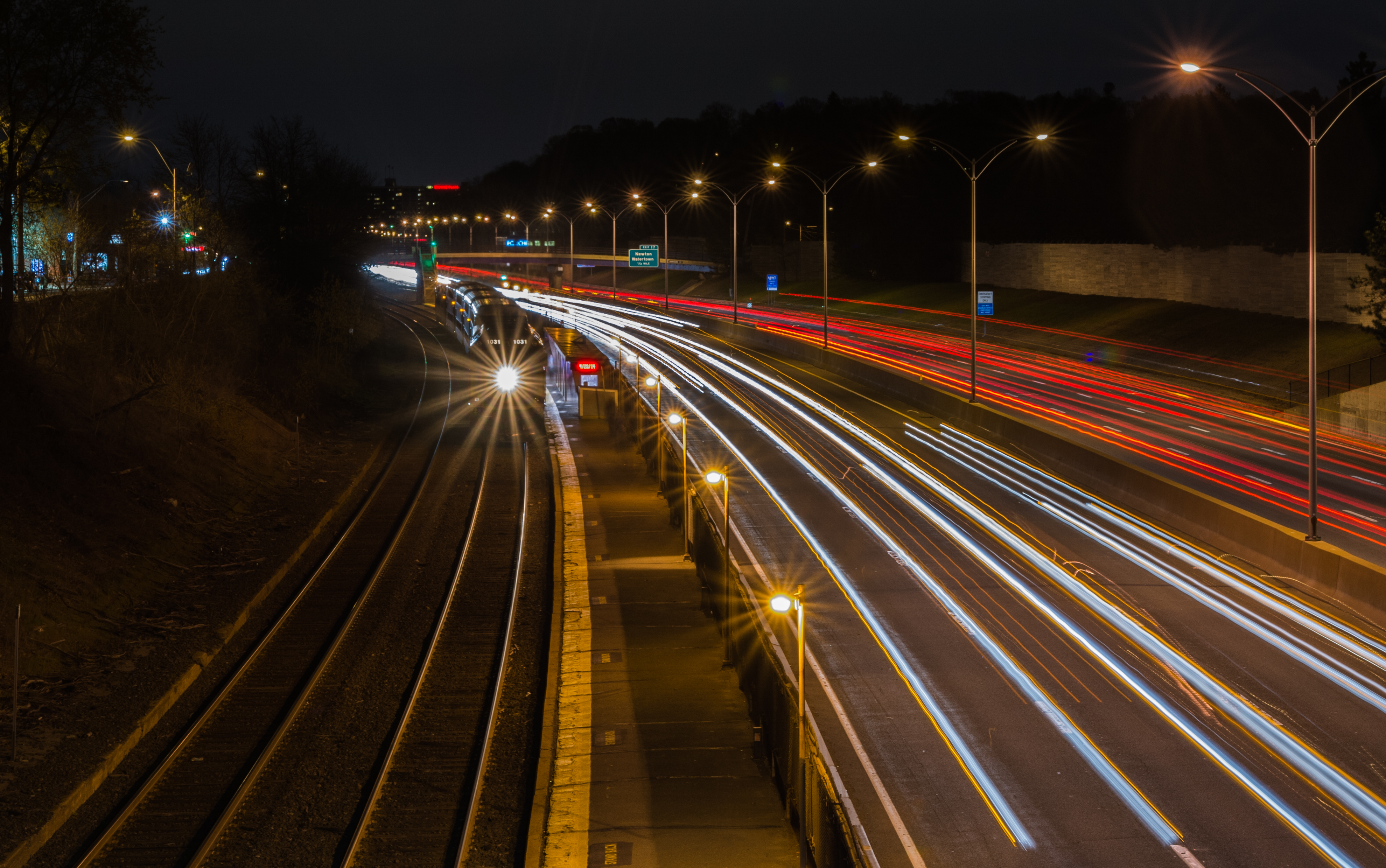 An outbound train arrives at Newtonville station at night